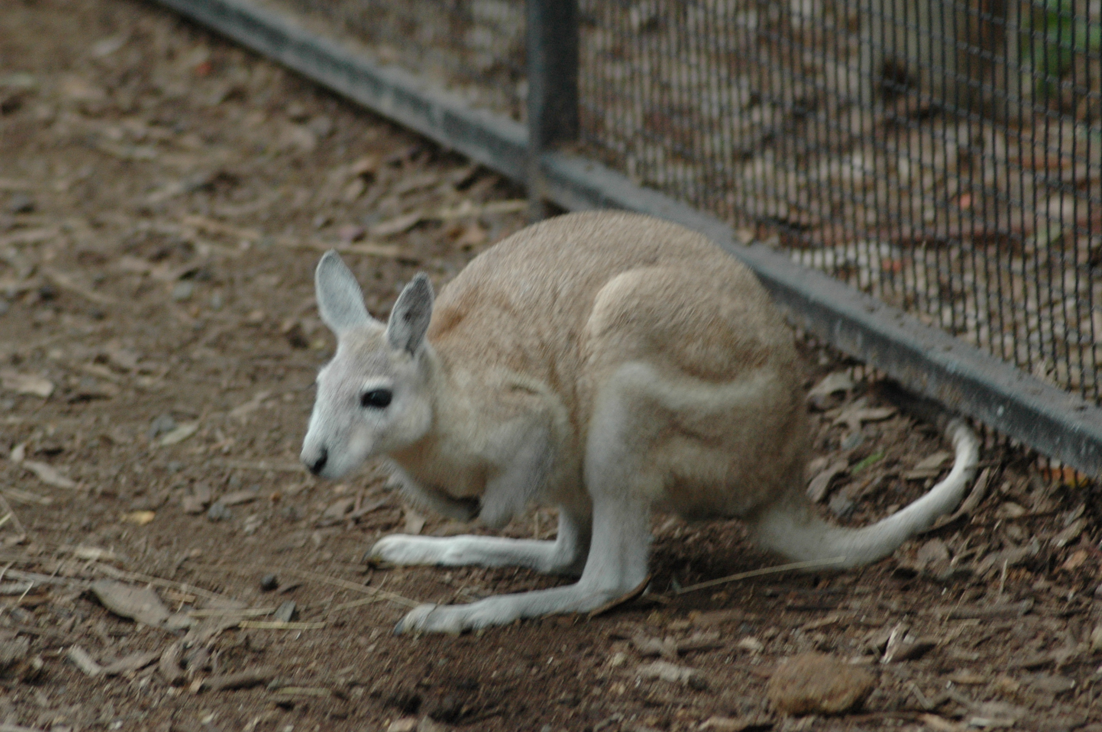 A Northern Nail-tail Wallaby at Featherdale